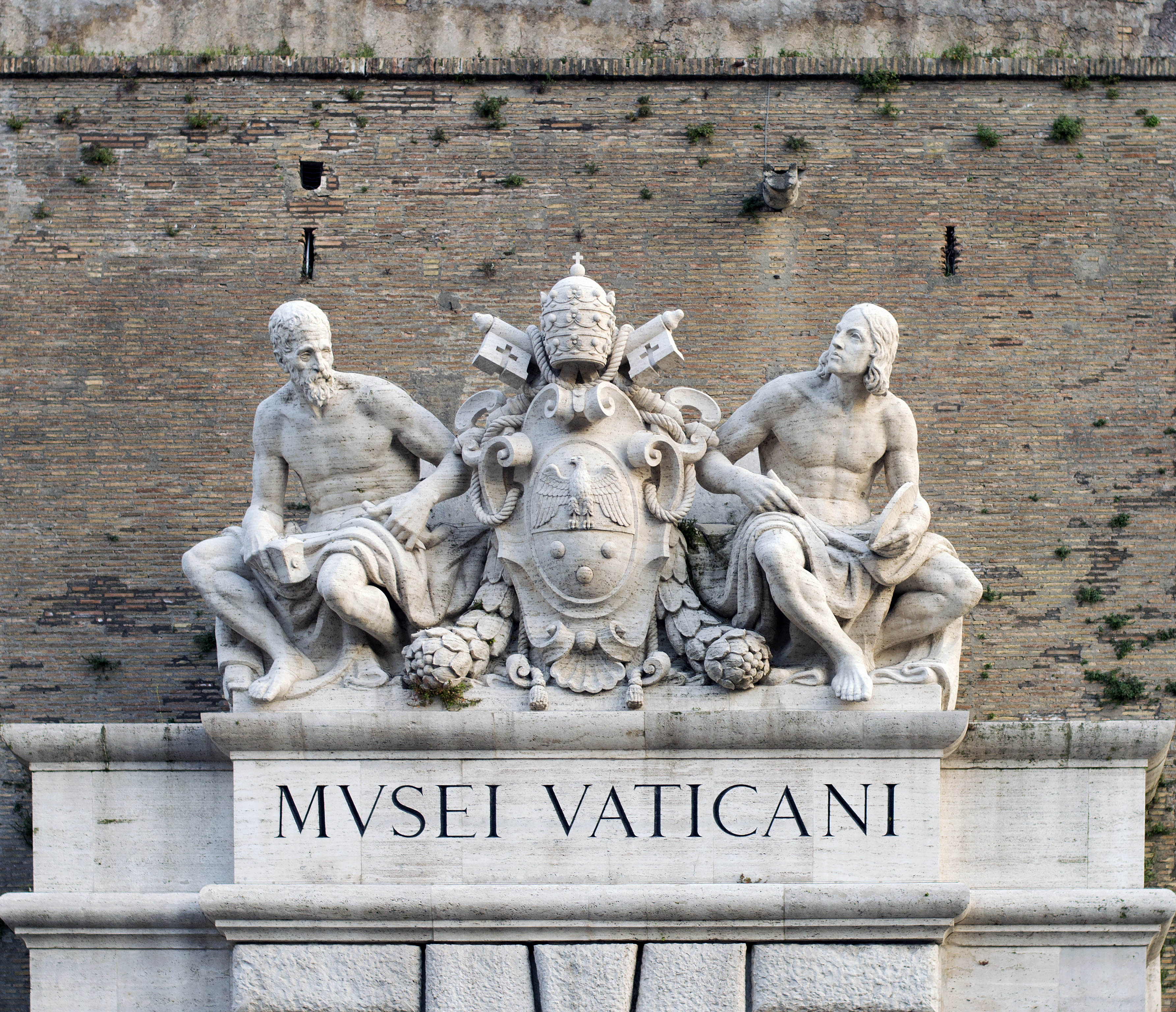 Sculptures above the entrance of Vatican Museums